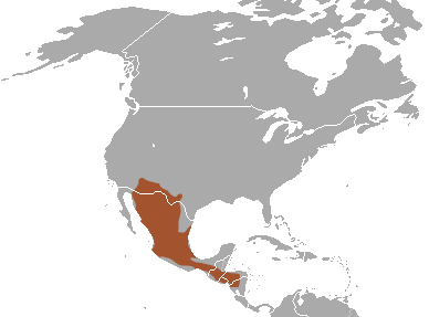 Hooded Skunk (Mephitis macroura) range, with colonial borders